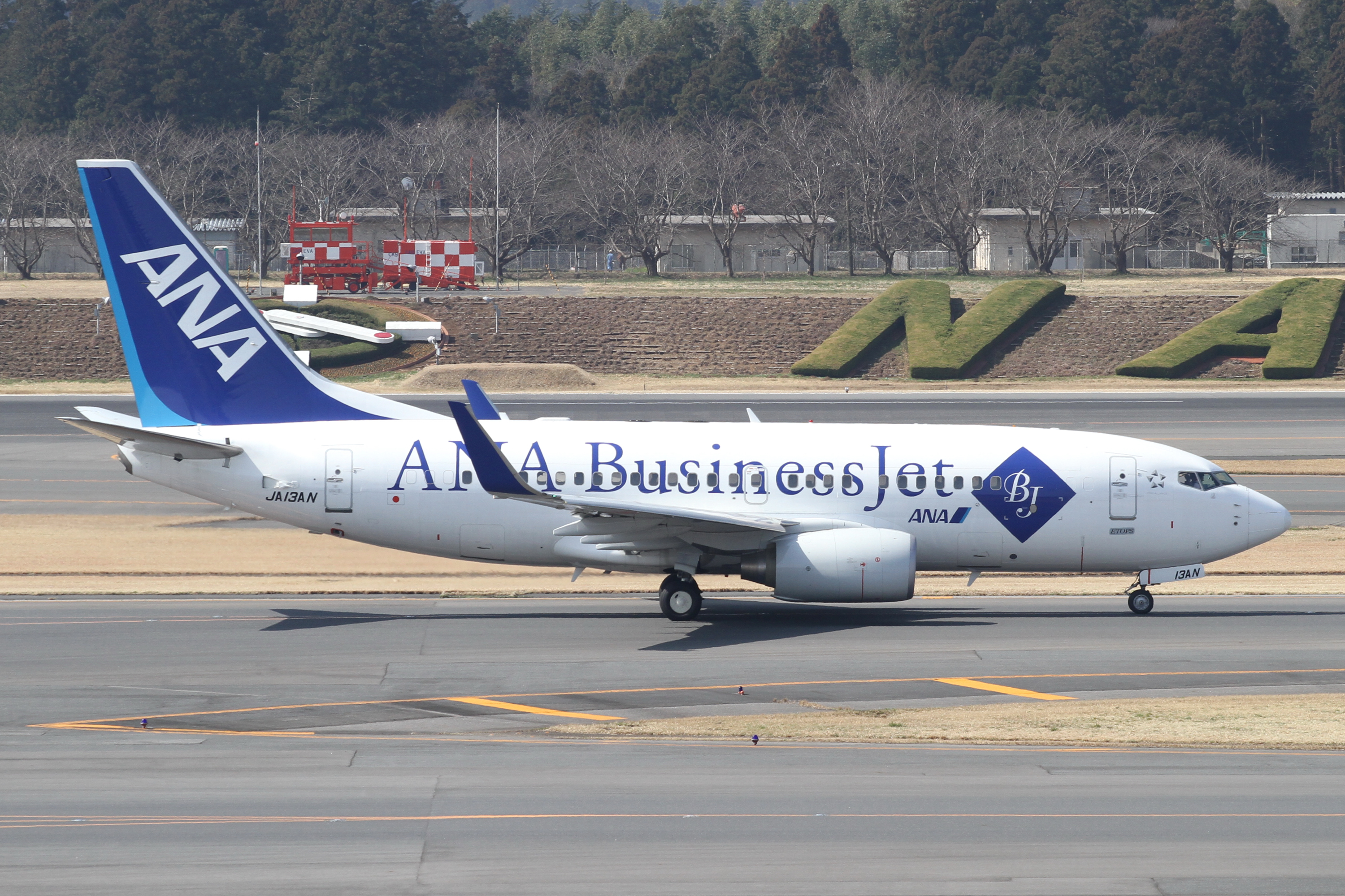 Narita International Airport, Boeing 737-781/ER, c/n:33880, All Nippon Airways